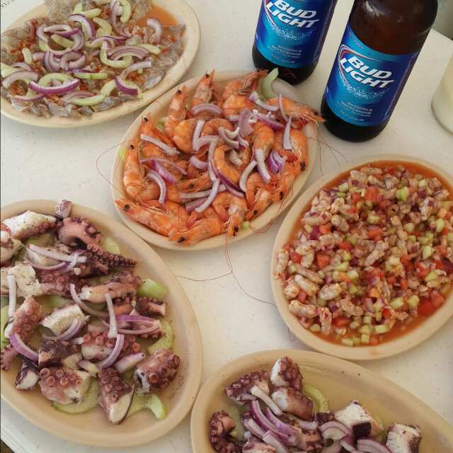 mariscos mazatlan